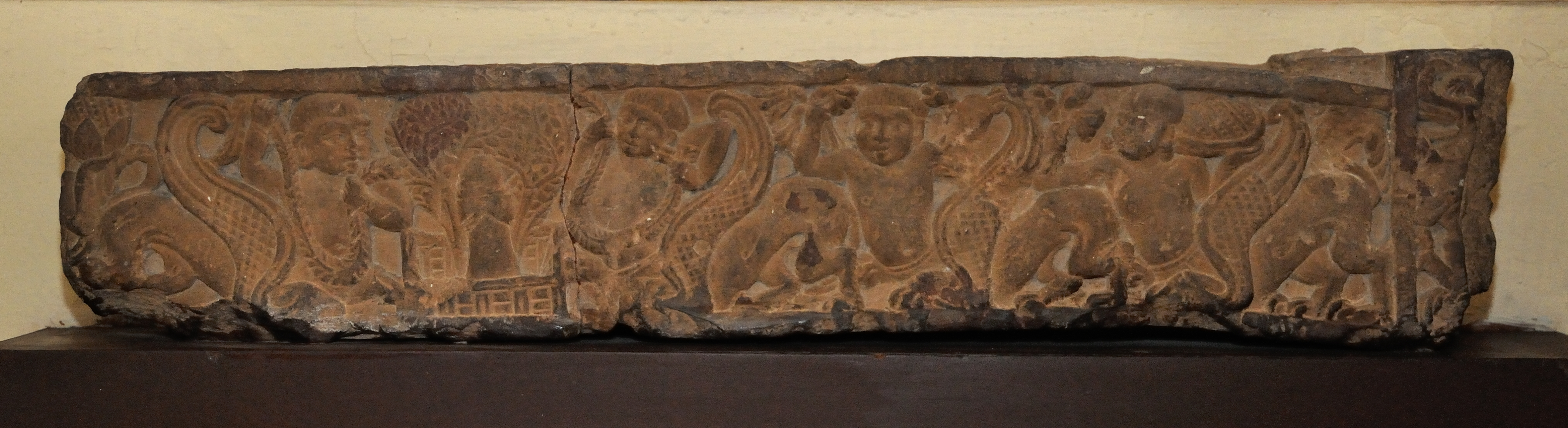 This artefact resides at the Government Museum, (hi: Rashtriya Sangrahalaya) formerly The Curzon Museum of Archaeology, Museum Road or Murari Lal Rajpal road, Dampier Nagar, Mathura, Uttar Pradesh, India. This museum is administrating by the State Government of Uttar Pradesh of India.